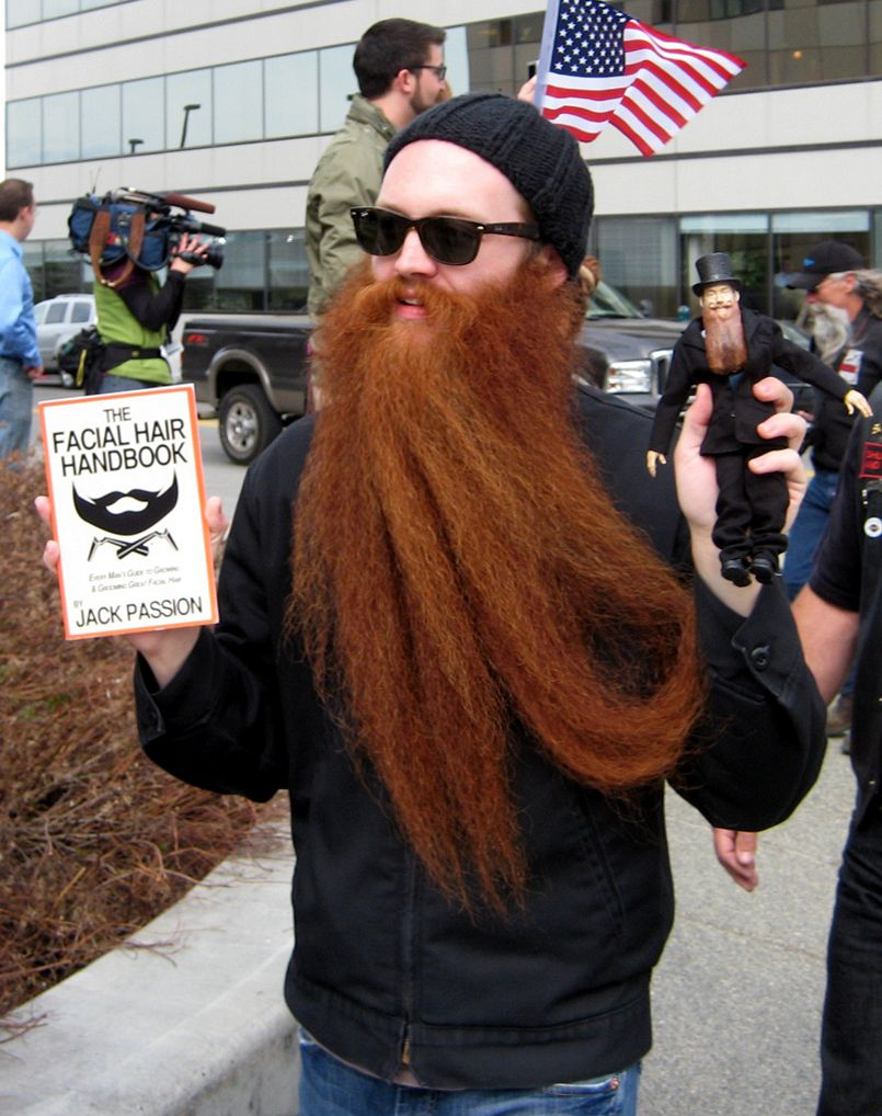 Burke Kenny & Jack Passion at the WBMC 2009 Parade in Anchorage, AK